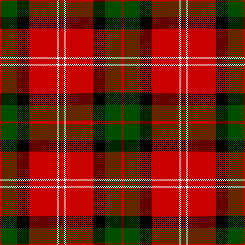 MacKintosh tartan, as published in the Vestiarium Scoticum. Modern thread count: R6 G32 Bk24 R56 W4 R10.